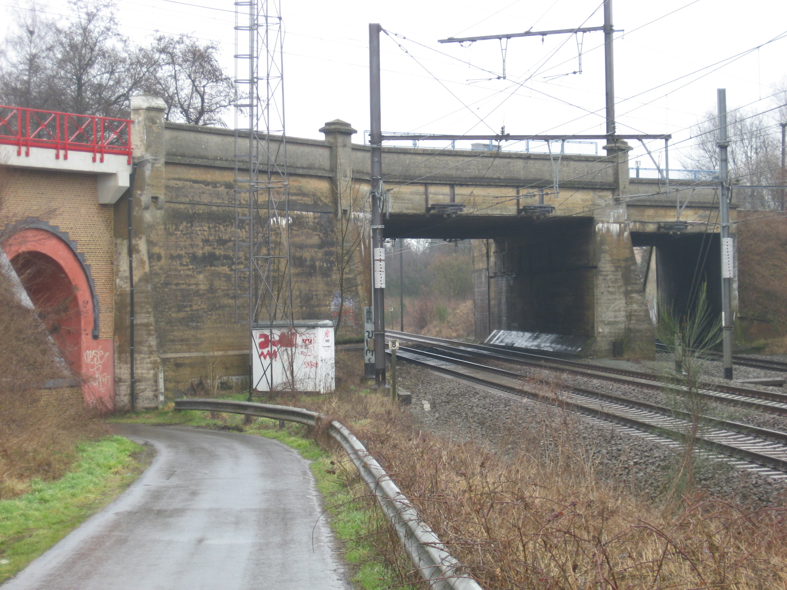 The crossing off the railway lines 50 and 50A. Line 50A, the expres line Brussels - Gent is above. Beneath is the old railway line Brussel North, Denderleeuw, Aalst en Gent. The furtest track is a connecting curve to the line line 50A.